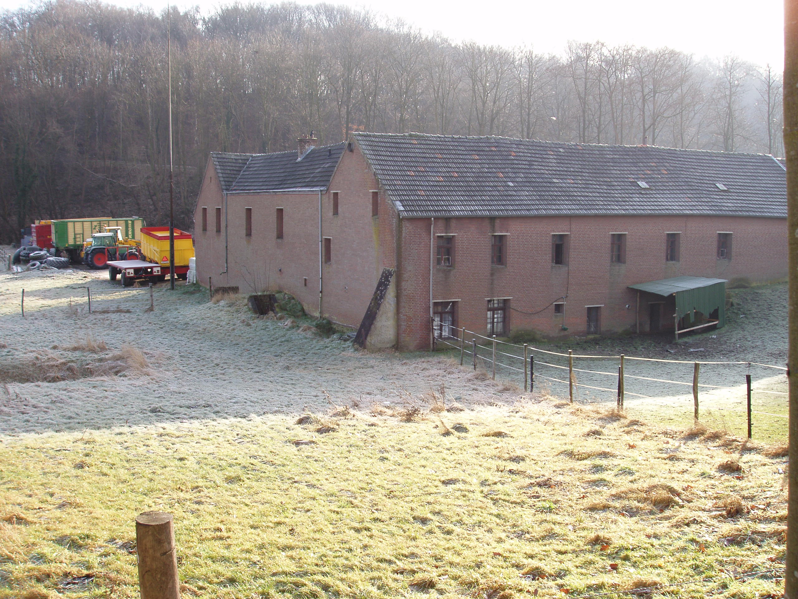 Watermill Hammolen, Kerkrade, Limburg, Netherlands